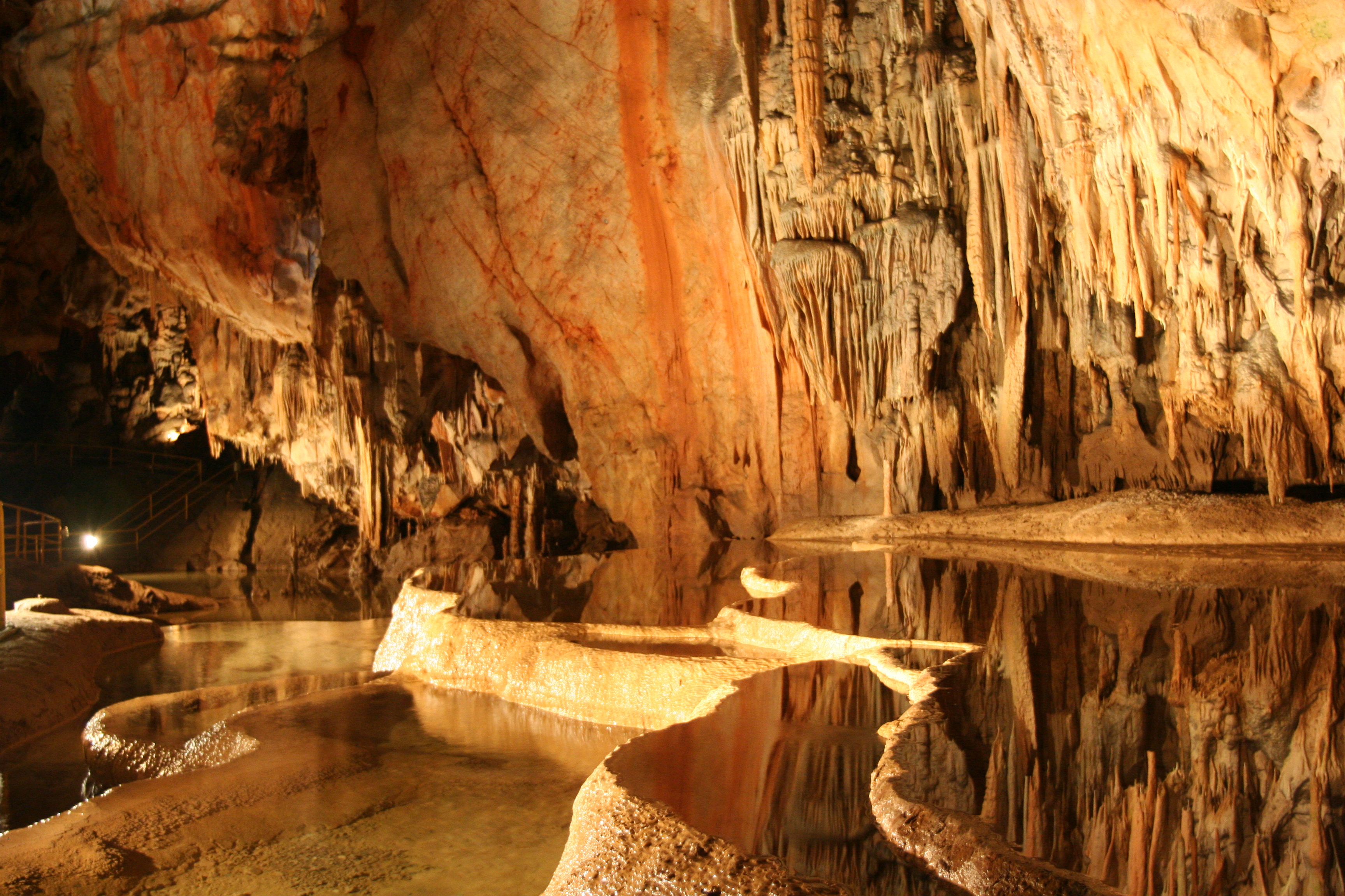 Domica Cave, Slovakia. Taking this photo was made possible through the financial support of Wikimedia Polska.